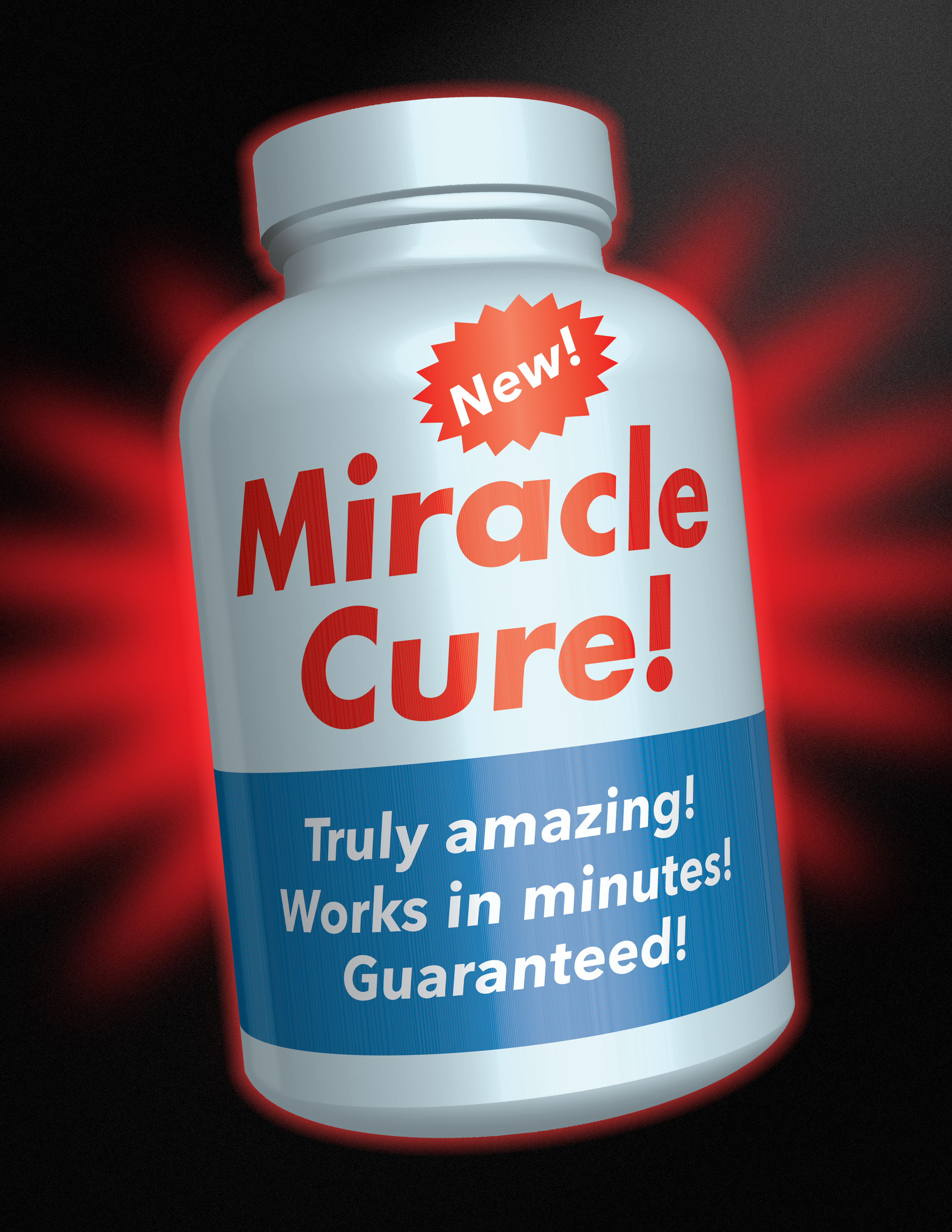 Bogus product! Danger! Health fraud alert! Unfortunately, you’ll never see these warnings, but that’s what you ought to be thinking when you see claims like “miracle cure,” “revolutionary scientific breakthrough,” or “alternative to drugs or surgery.” Learn more about health fraud scams and the tip-offs to rip-offs in this FDA Consumer Update article: • 6 Tip-offs to Rip-offs: Don’t Fall for Health Fraud Scams This image is free of all copyright restrictions and available for use and redistribution without permission. Credit to the U.S. Food and Drug Administration is appreciated but not required. For more privacy and use information visit: FDA graphic by Michael J. Ermarth